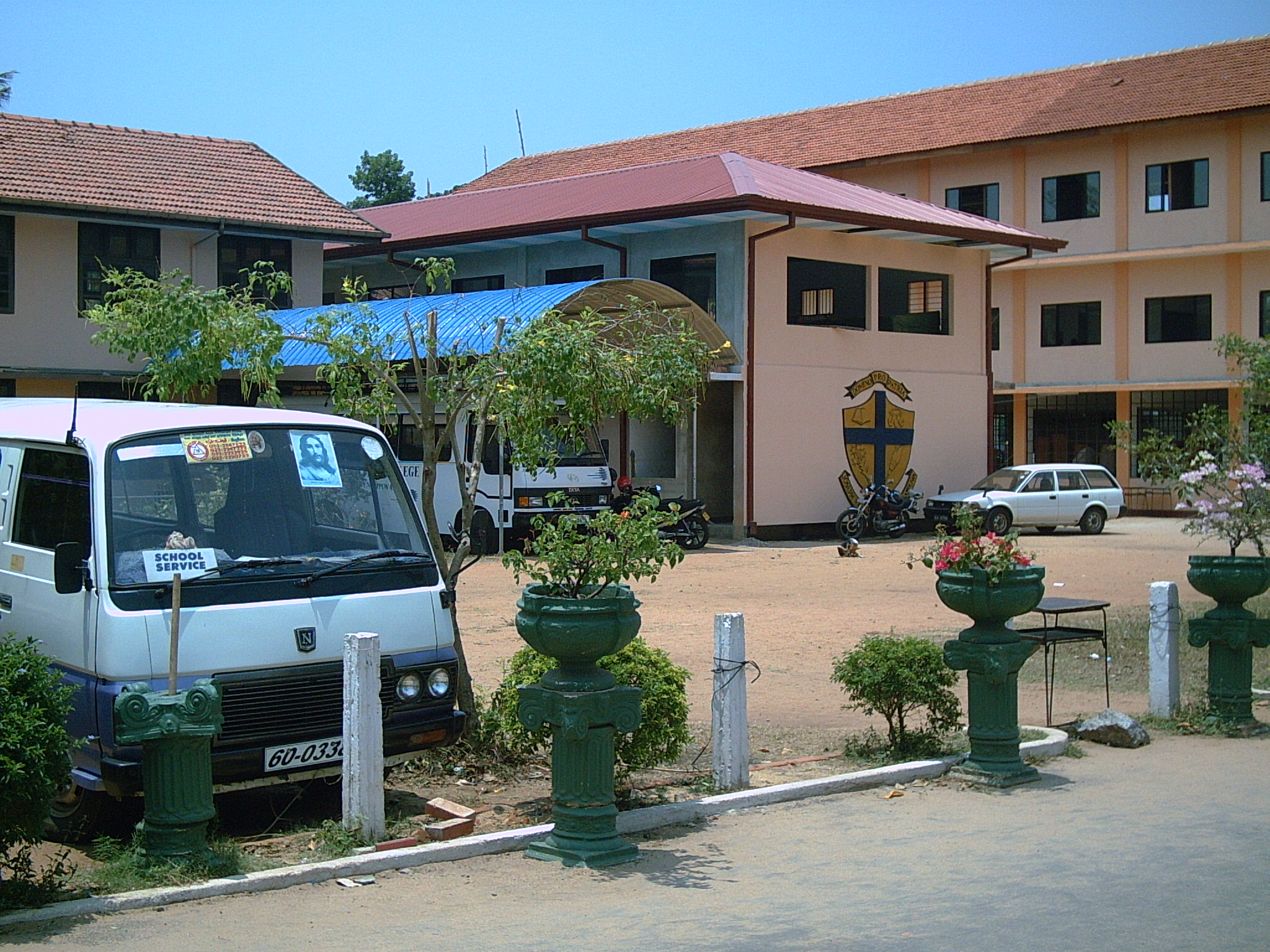 A glance at the vast facilities provided to the children. Pic by: Marion Ruwantha Thamel(97)